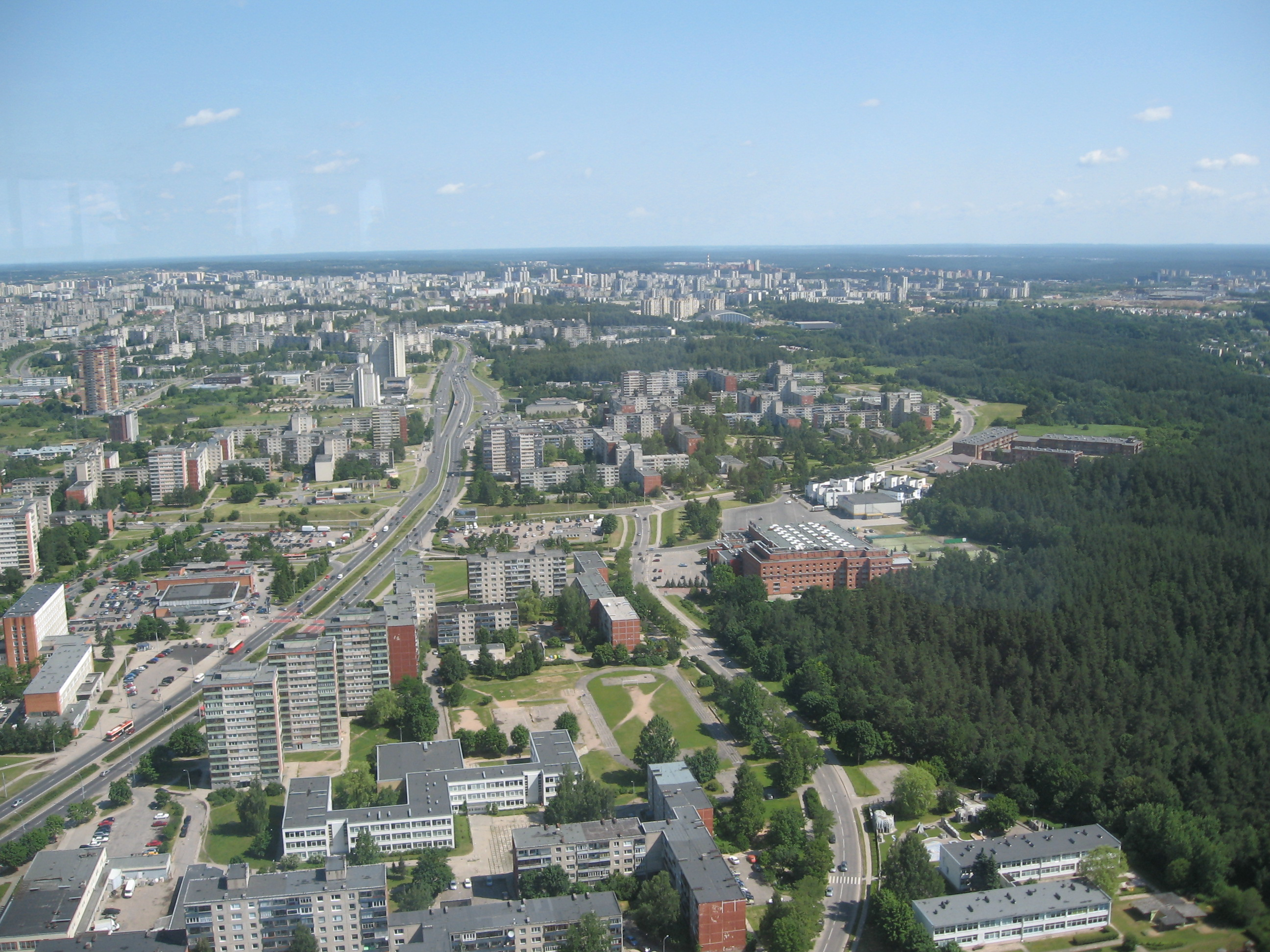 View from Vilnius TV-tower. Below is Karolinishkes district, far is Virshulishkes district